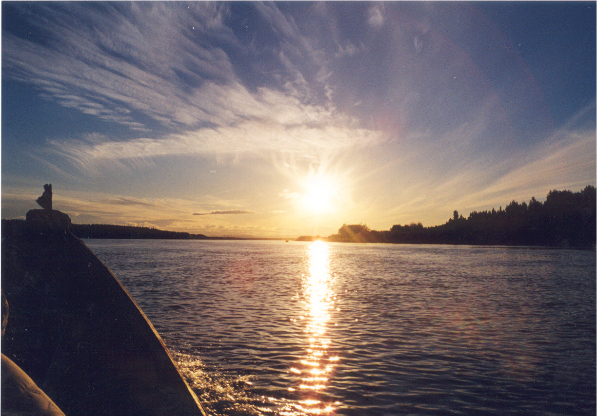 Sunset on the Lyapin river, Circumpolar Urals, Russia